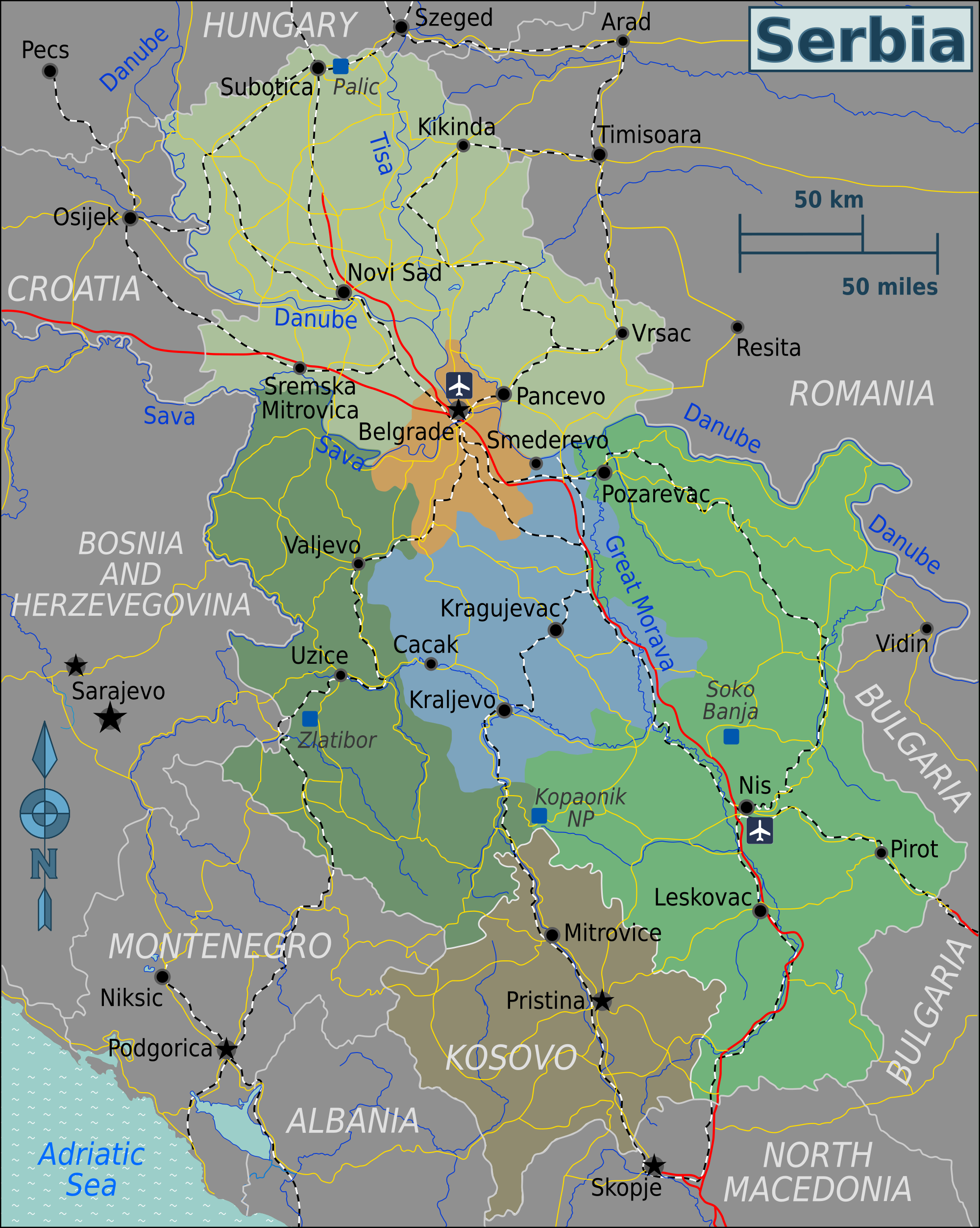 Map of Serbia. PNG, Serbia Map of: Serbia¤.